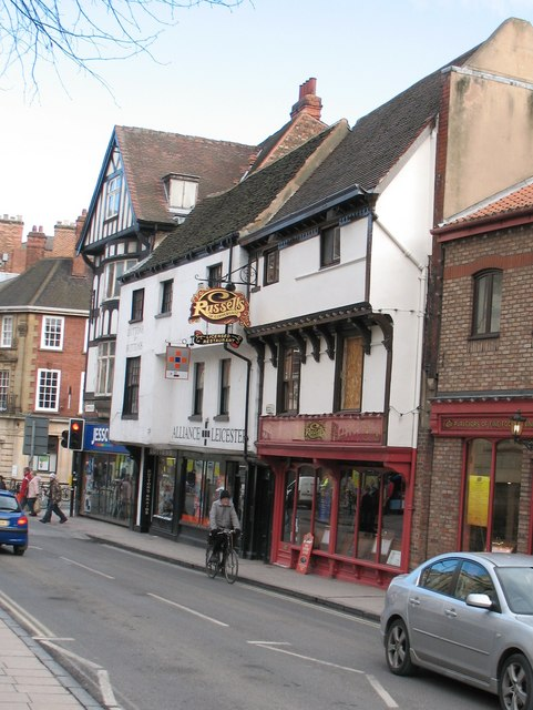 Shops in Coppergate Old and not so old buildings at the north end of Coppergate, with two timber framed and jettied buildings in the centre which may be of the 15th or 16th centuries. Some mock Tudor above Jessops on the corner and modern development on the extreme right.